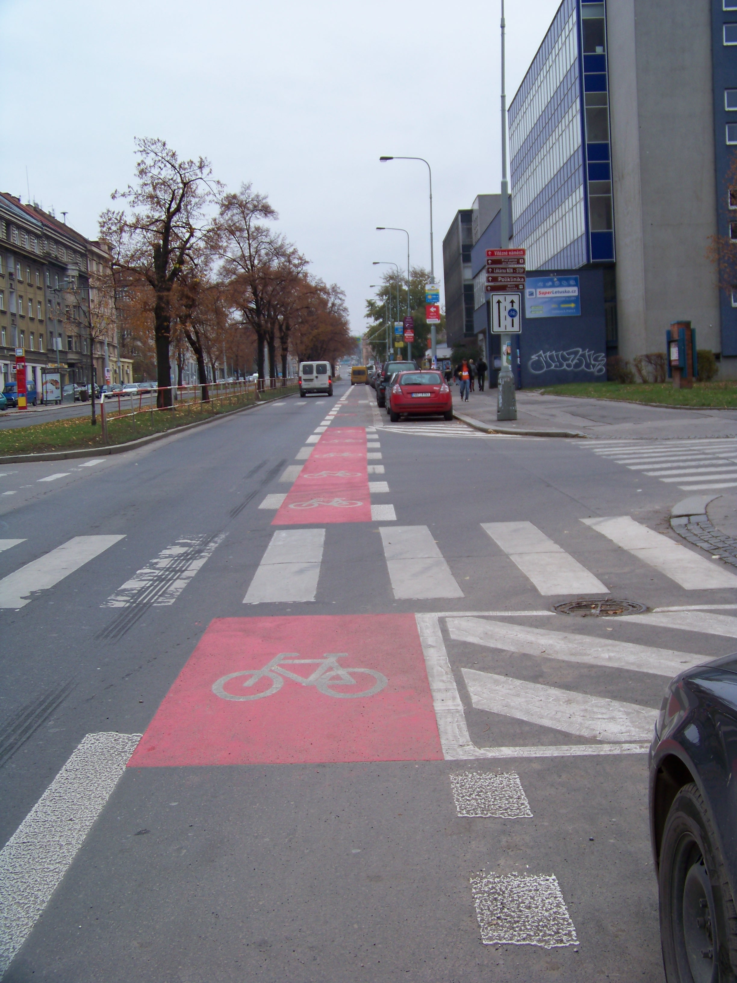 Dejvice, Prague, the Czech Republic. Jugoslávských partyzánů Street, cycle lane. - Google Maps - Google Earth